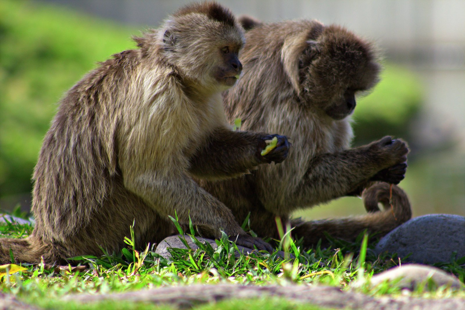 Wedge-capped capuchins in Parque del Este, Caracas, Venezuela.